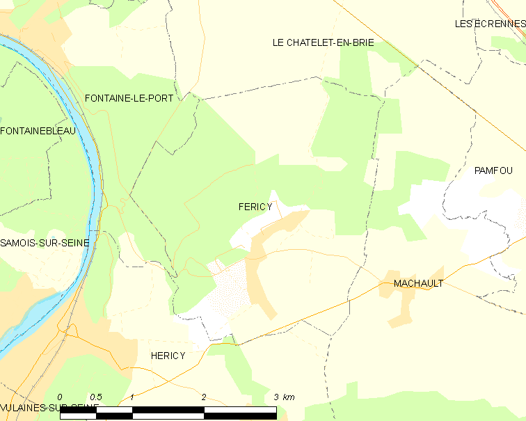 Map of French municipality Féricy